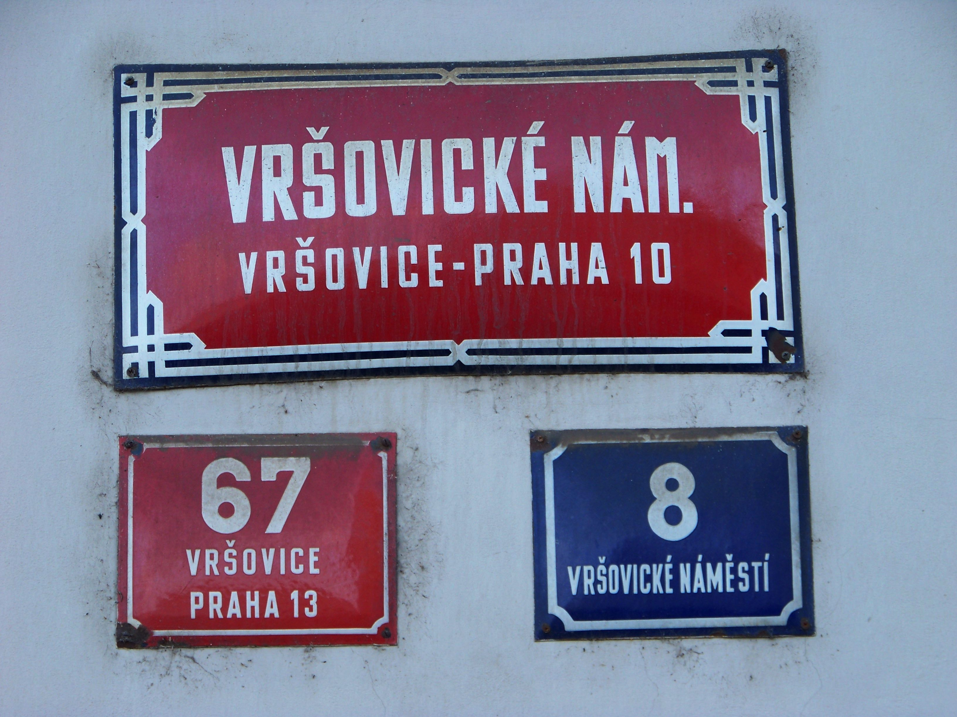 Prague-Vršovice, the Czech Republic. Vršovické náměstí 67/8. Street signs and house numbers.